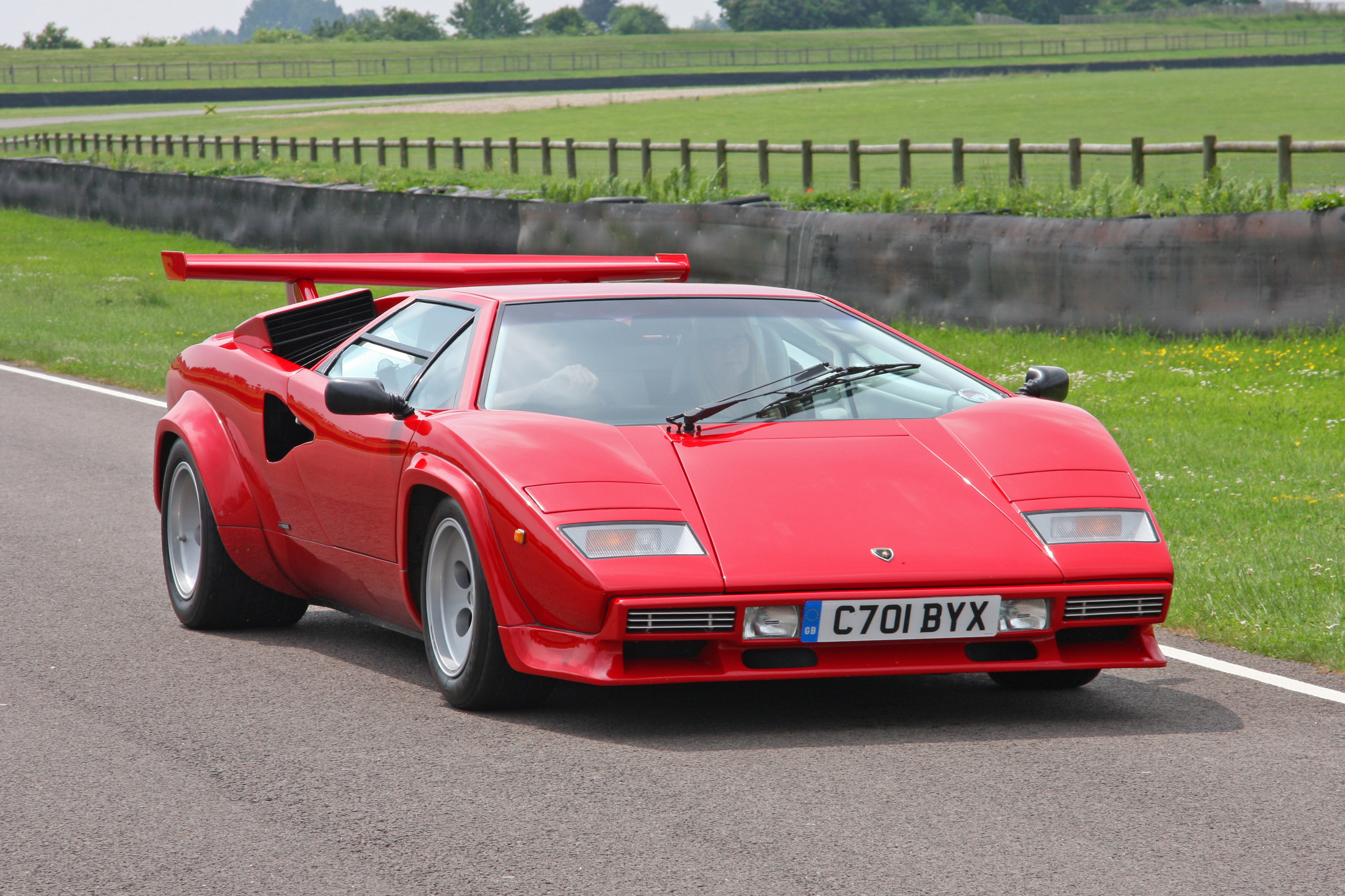 Lamborghini Countach 5000QV